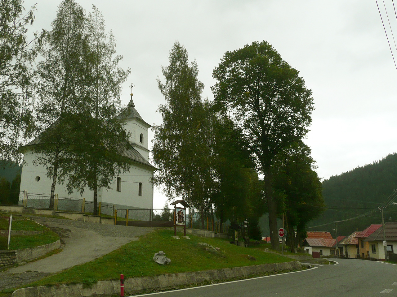 Catholic church in Vernar